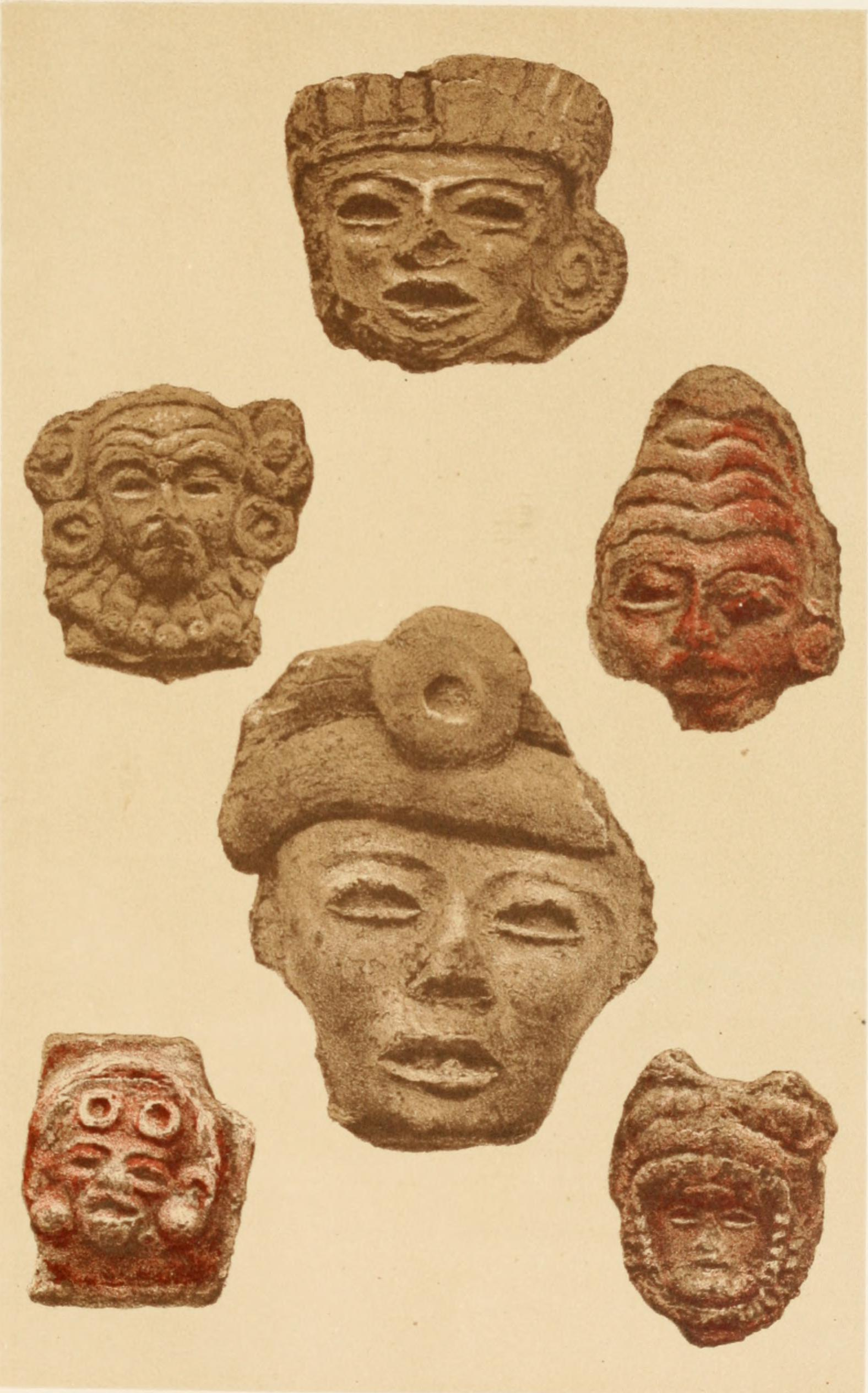 Title: Mexico to-day, a country with a great future; and a glance at the prehistoric remains and antiquities of the Montezumas Year: 1883 (1880s) Authors: Brocklehurst, Thomas Unett Subjects: Mexico -- Antiquities Mexico -- Description and travel Publisher: London, Murray Text Appearing Before Image: niicercBrxis UA^.^^lJ.vxi.. CLAY HEADS found in great quantities,- ON THE SITES OF ANCIENT AZTEC CITIES (exact size) Text Appearing After Image: CLAY HEADS found in great quantities; ON THE SITES OF ANCIENT AZTEC CITIES.(EXACT SIZE)